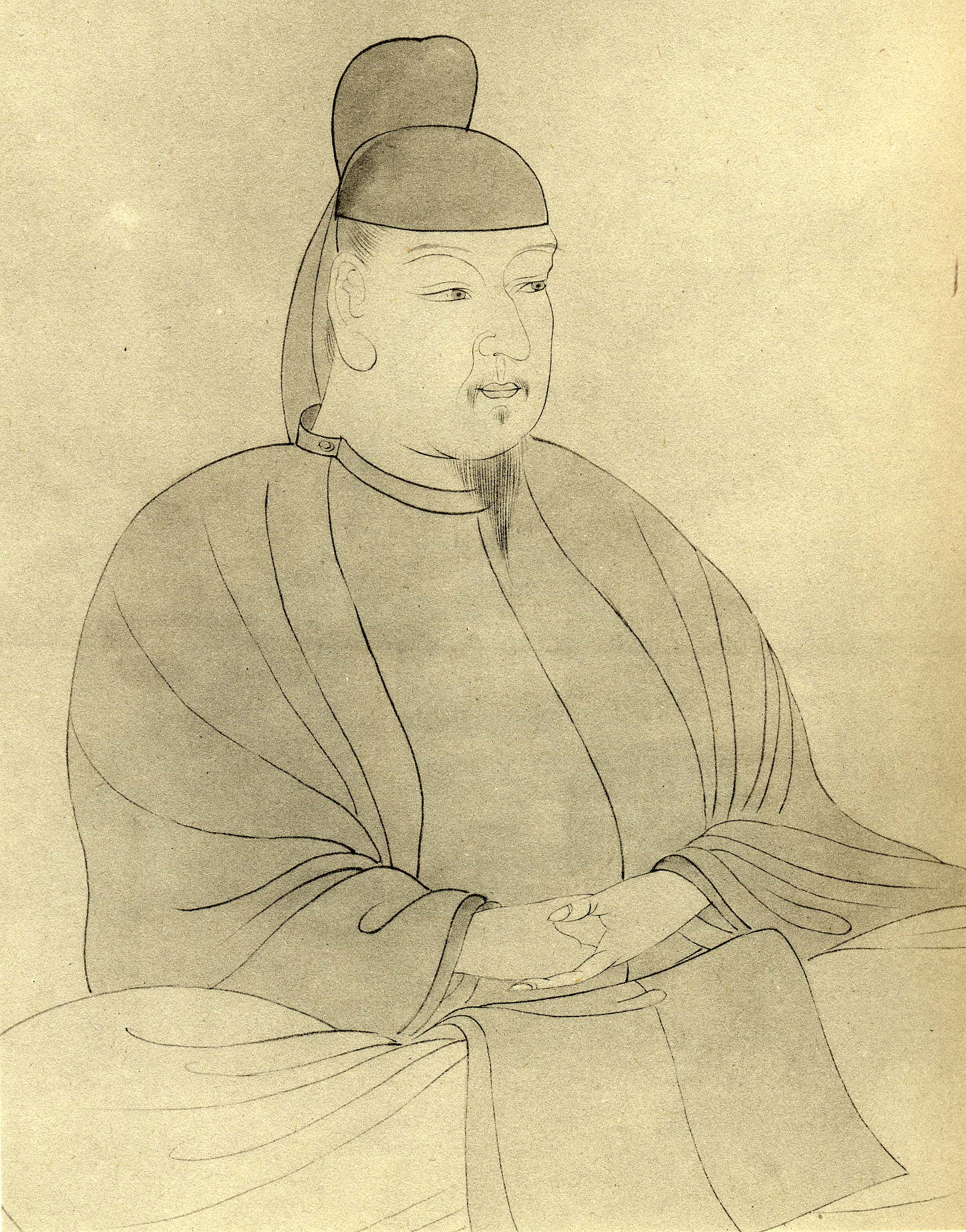 Yamabe no Akahito (山部赤人 or 山邊赤人, 700 - 736) was a poet of the Nara period in Japan.